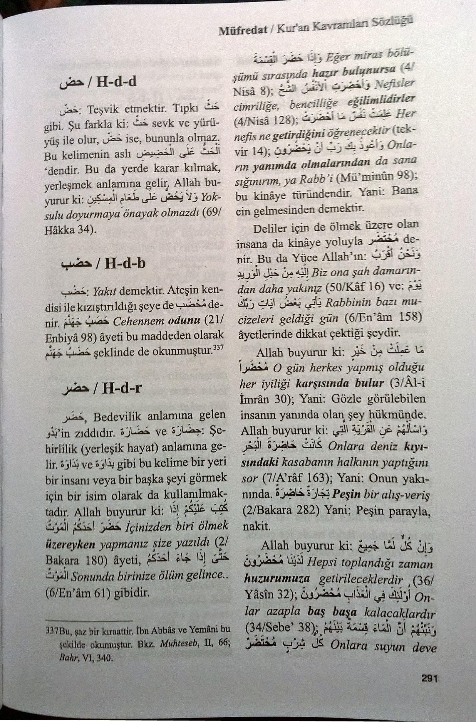 One page of the Turkish translation of the medieval work Al-Mufradat fî Gharîb al-Quran